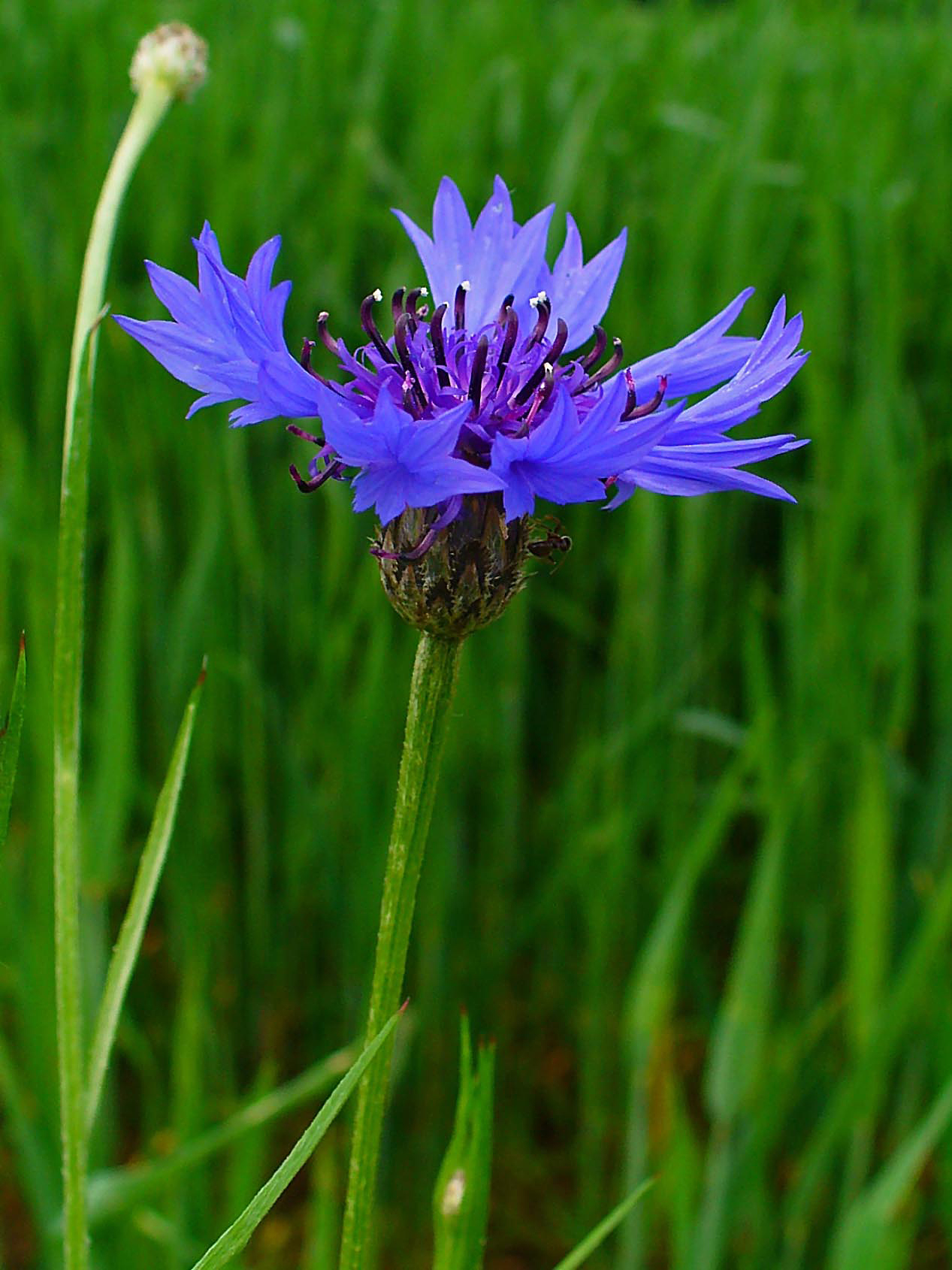 Centaurea cyanus, Asteraceae, Cornflower, Bachelor's Button, Bluebottle, Boutonniere Flower, Hurtsickle, inflorescence; Stutensee, Germany. The plant is used in homeopathy as remedy: Centaurea cyanus (Cent-c.)